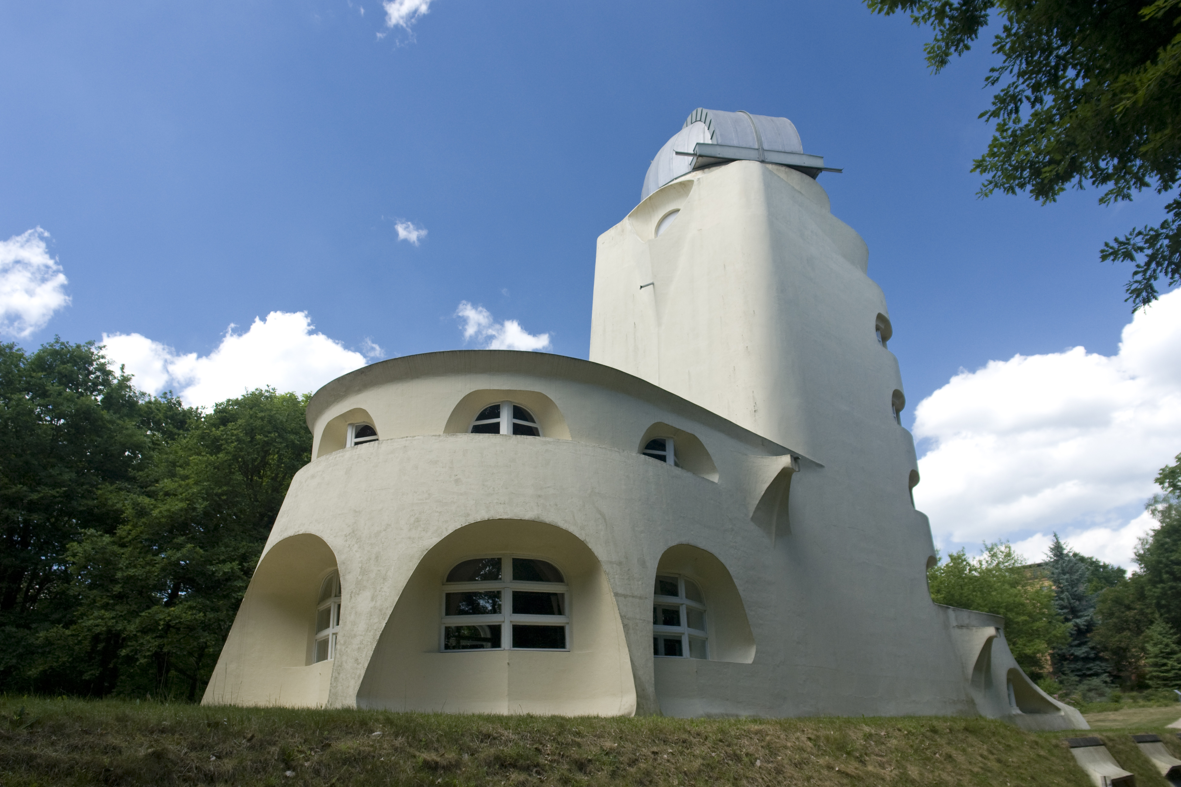 this is the rear view of the Einsteinturm (Einstein tower) on the Telegraphenberg in Potsdam. it houses an observatory and was built to validate Albert Einstein's relativity theory read more about it here (English Wikipedia) or here (German Wikipedia)